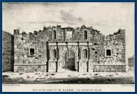 This is a drawing of the Alamo Mission, first published in 1846.